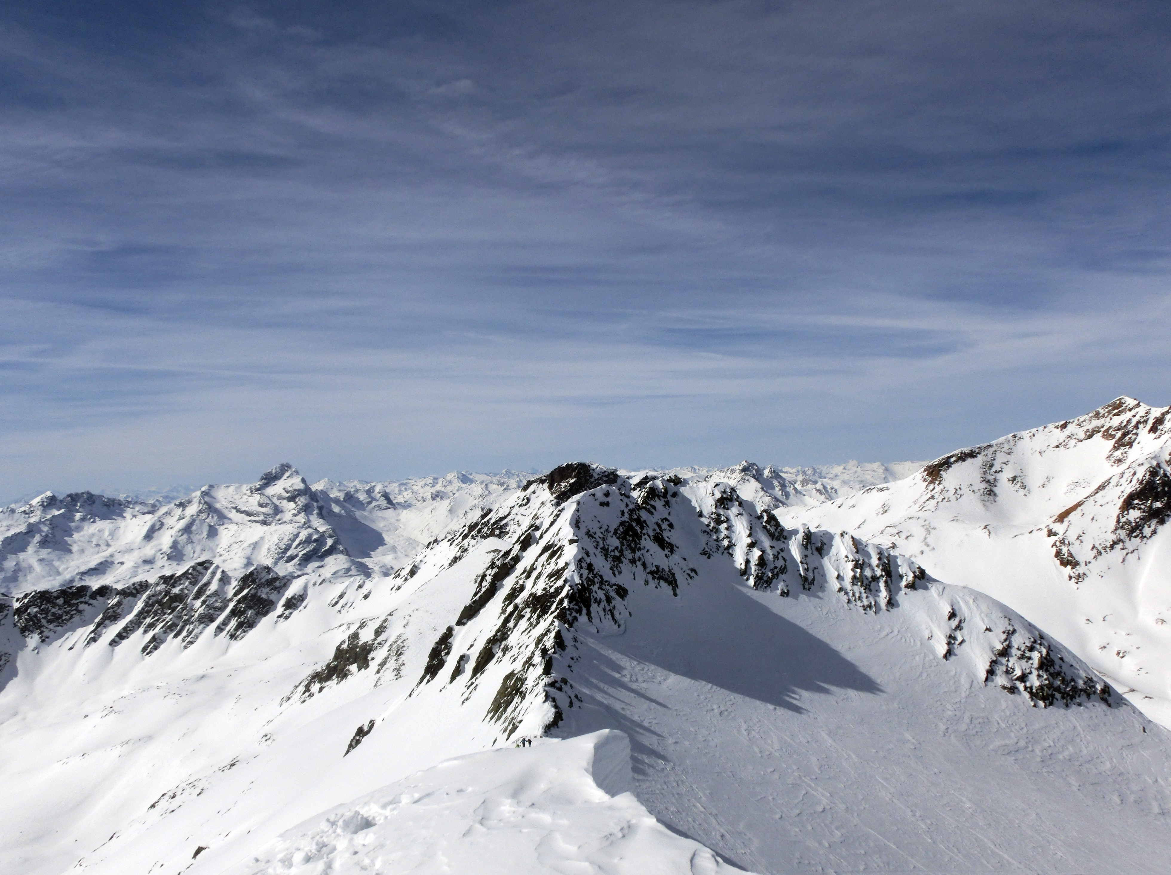 Western summit as seen from eastern summit of Piz Surgonda (Bivio/Bever, Grison, Switzerland).